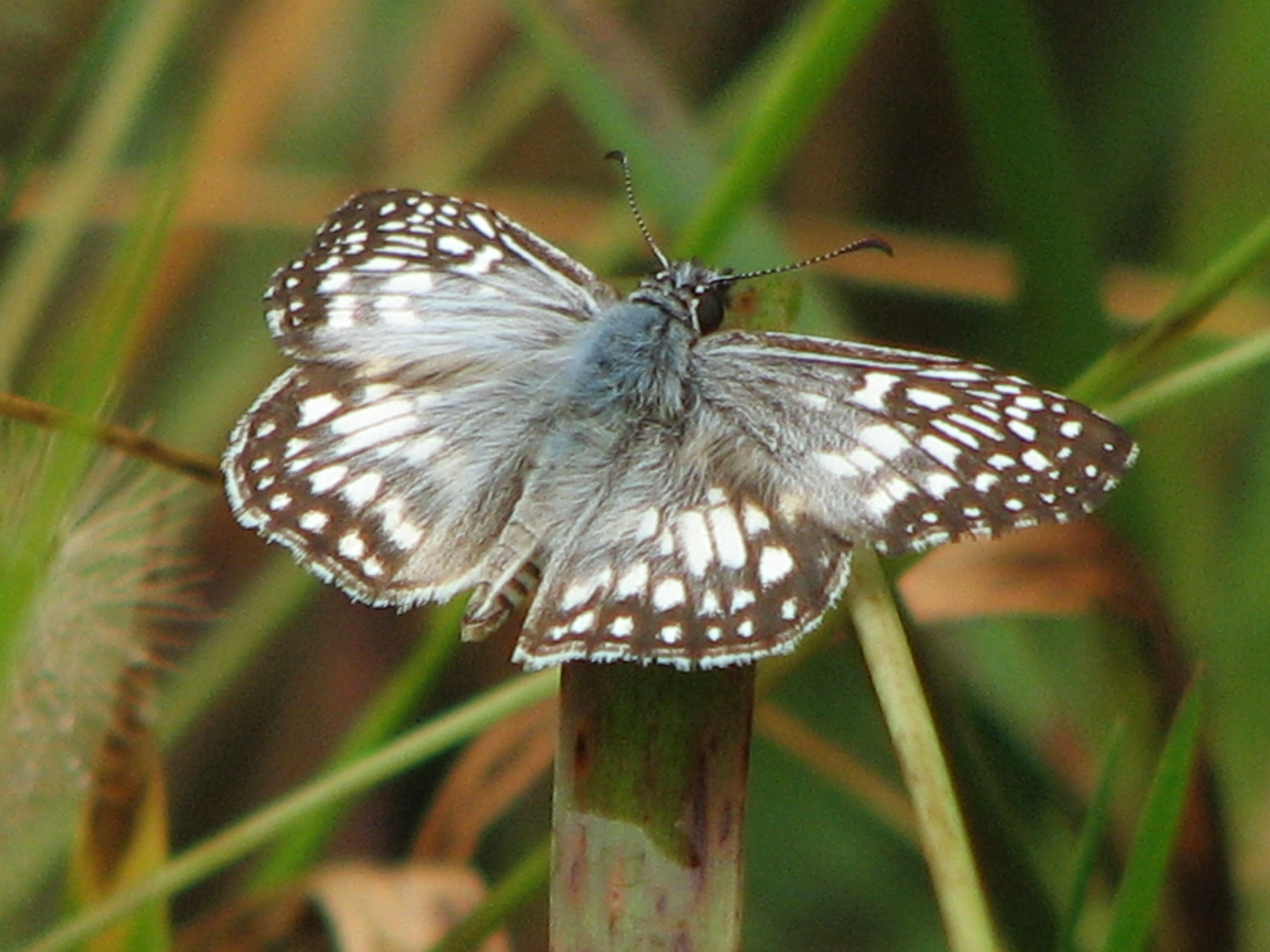 Pyrgus oileus Lake McKethan Nature Trail Withlacoochee State Forest Trailwalker Trail Brooksville, Florida